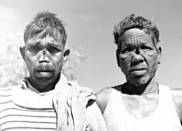 Citation: Mennonite Board of Missions Photographs, 1898-1967. IV-10-007.2 Box 4 Folder 11. Mennonite Church USA Archives - Goshen. Goshen, Indiana.